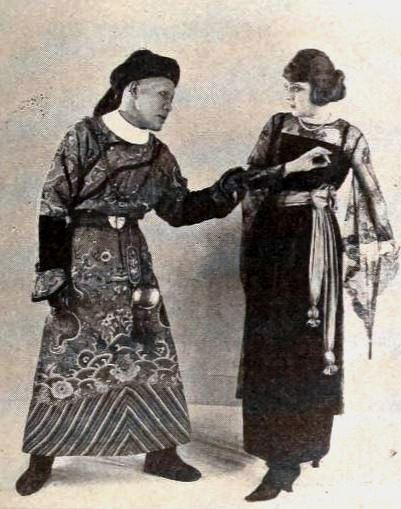 Still from the American drama film The River's End (1920) with Togo Yamamoto and Jane Novak, on page 55 of the March 13, 1920 Exhibitors Herald.